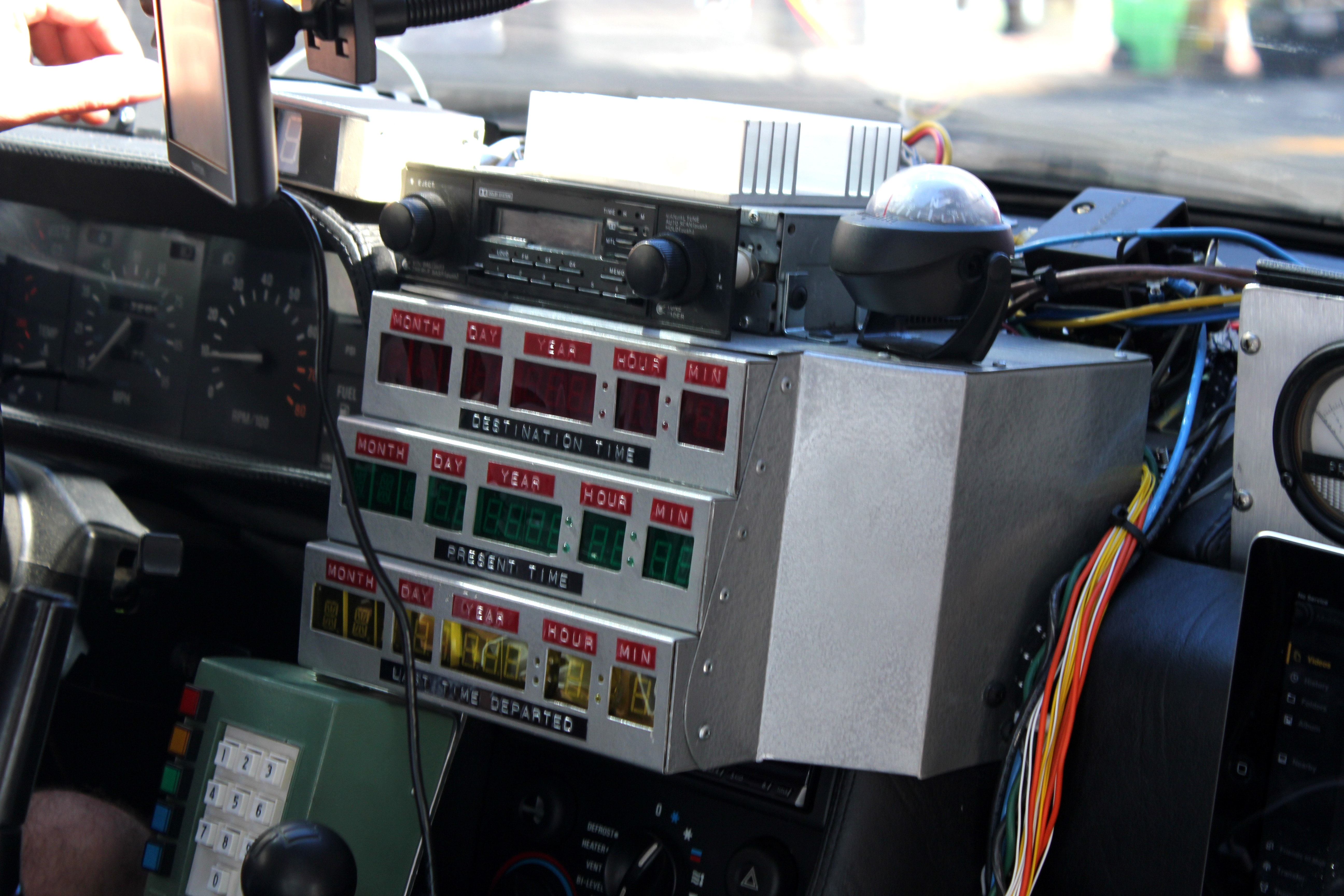 The time circuits in a replica DeLorean DMC-12 Time Machine